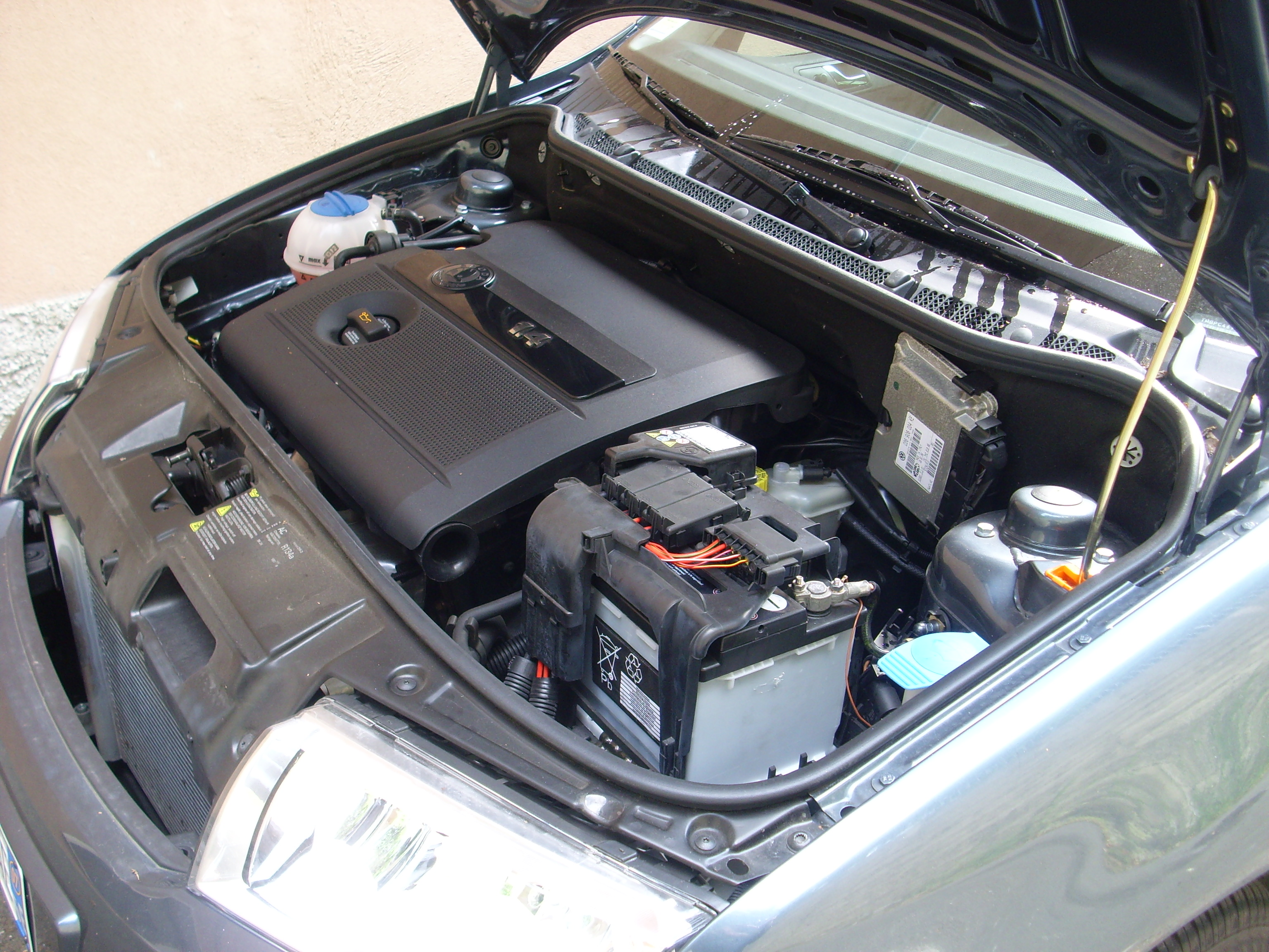 Volkswagen Group 1.4 litre petrol engine, shown fitted in a Skoda Fabia